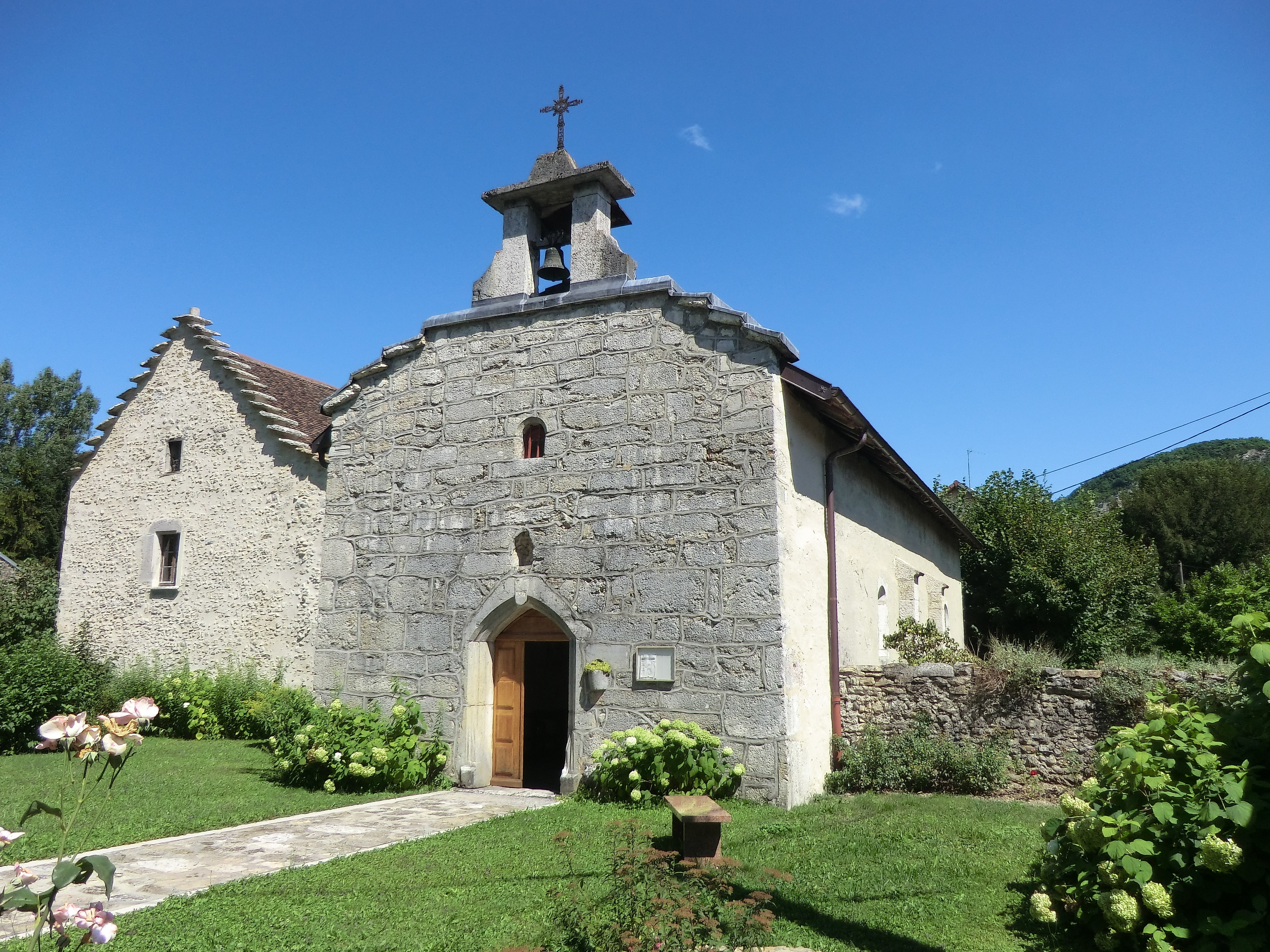 Saint-George chapel of Pugieu (Ain, France).